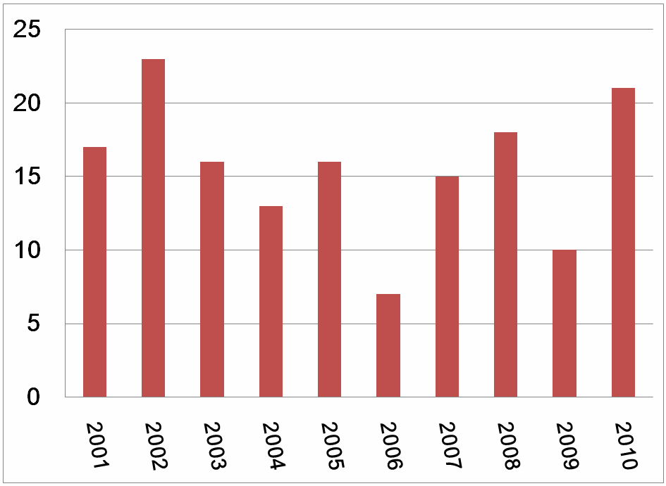 Bar graph showing annual Metra related fatalities between 2001 and 2010. This data does not include fatalities of railroad employees